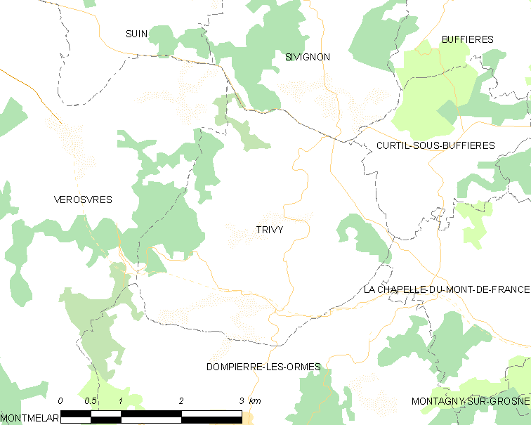 Map of French municipality